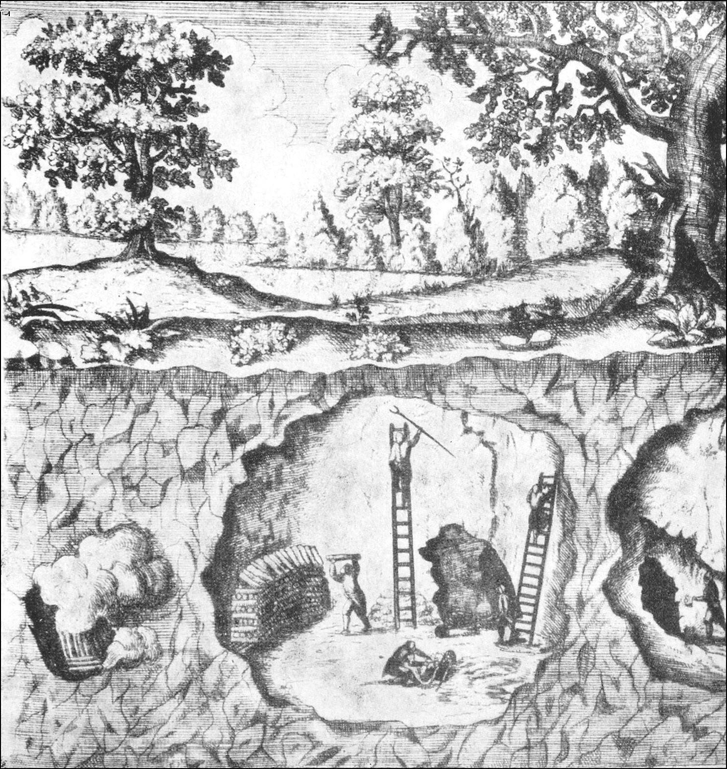 Presentation of setting fire in tin mining. The height of the resulting dilatations is clear the danger of collapse for too much weakened pillars between the widenings imagine.